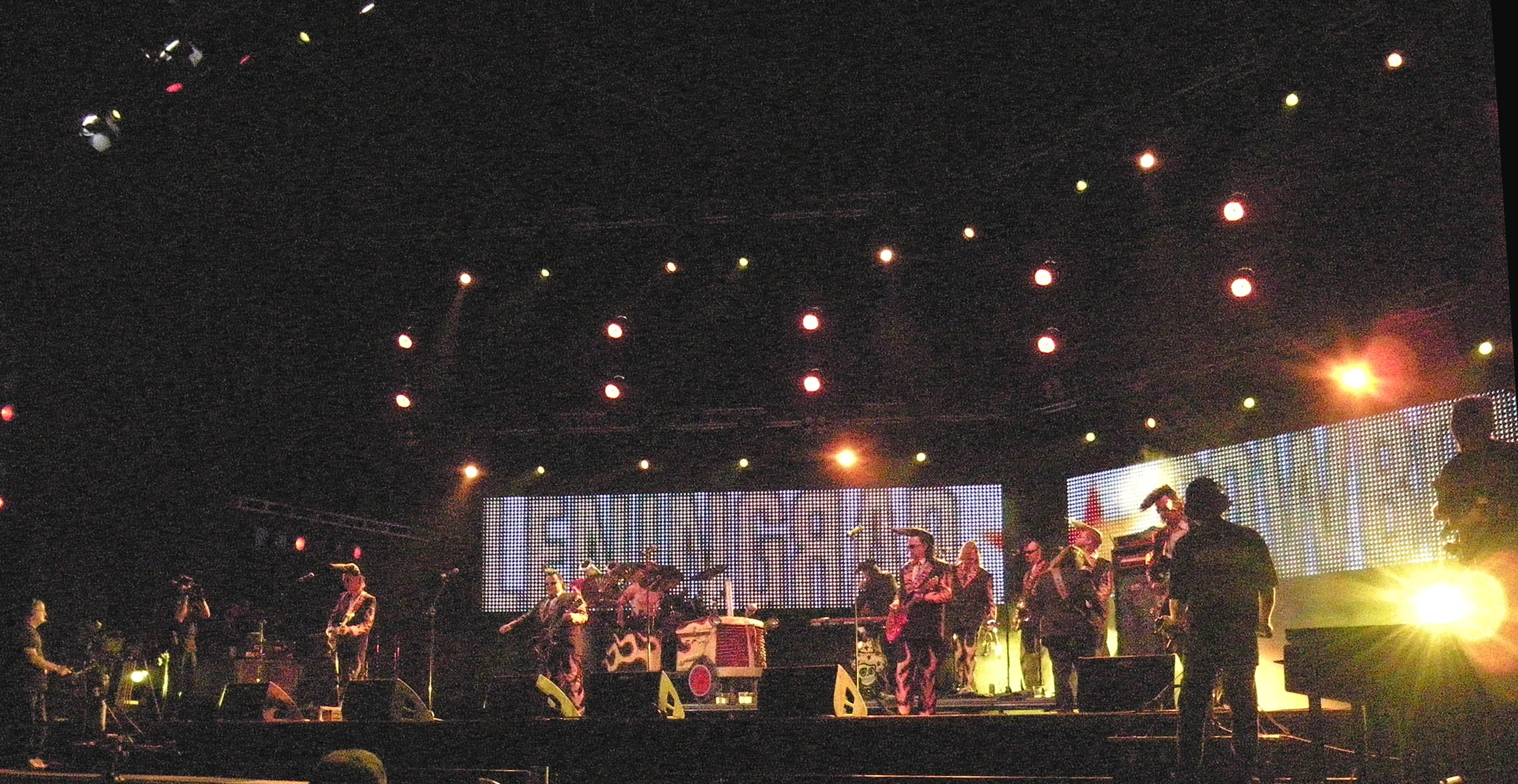 Leningrad Cowboys in Vienna, Austria, Donauinselfest 2008.